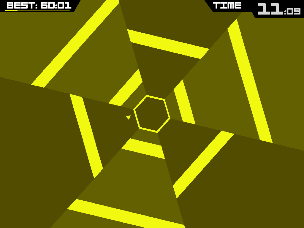 Super Hexagon iPad version screenshot, depicting the Hexagonest difficulty level. Released in 2012, the game was developed by Terry Cavanagh.